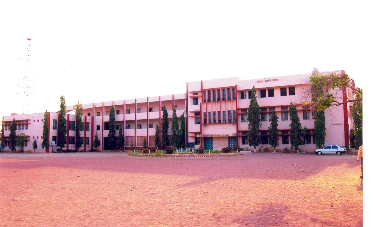 Mudhoji College in Phaltan, Maharashtra, India.